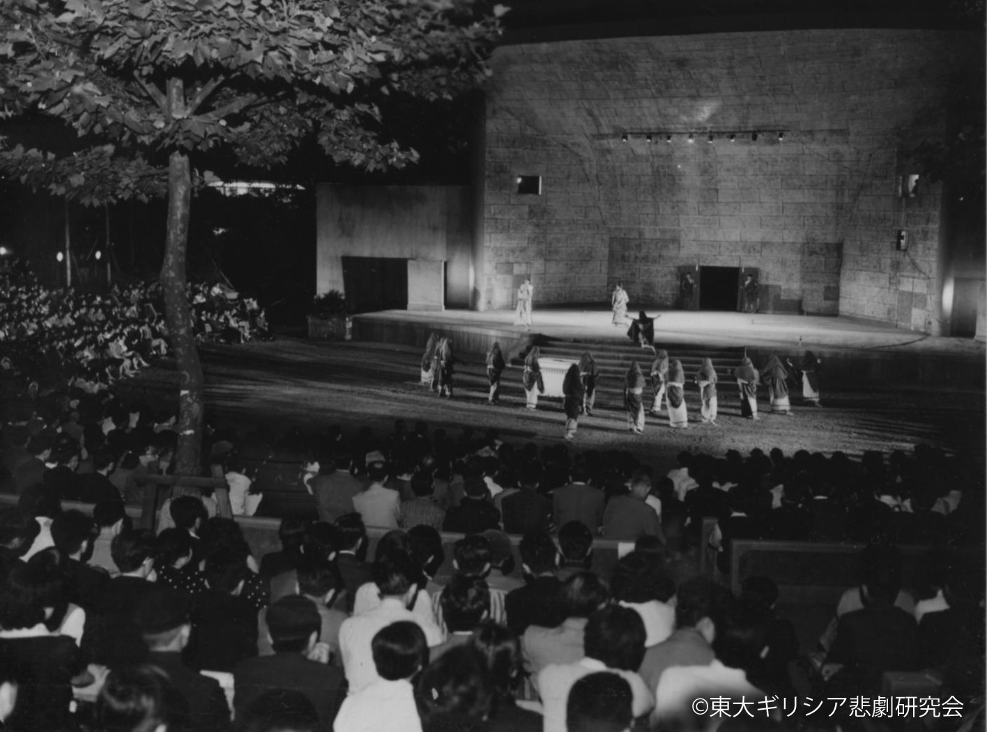 Greek Tragedy 1958 Tokyo University Greek Tragedy Institute-c